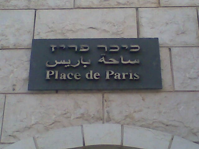 "Place de Paris" in Haifa: sign in hebrew, french and arabic.